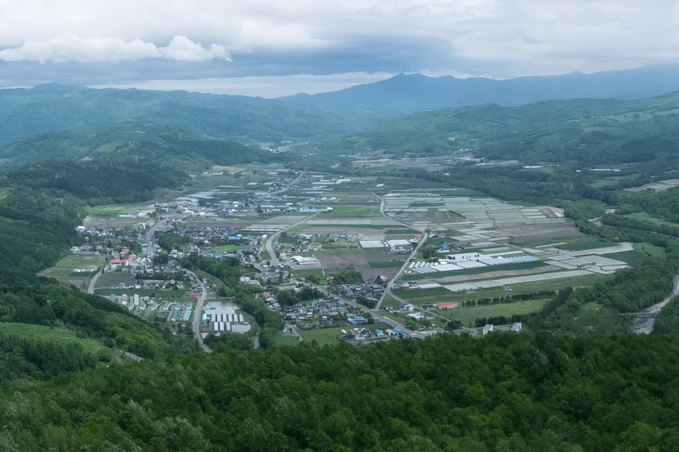 Downtown Sōbetsu seen from the Southwest. Taken on the top of Shōwa-shinzan. This is a retouched picture, which means that it has been digitally altered from its original version. Modifications: Cropping. The original can be viewed here: From Shōwa-shinzan (35924431674).jpg. Modifications made by Batholith.